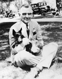 Photo from family archives taken prior to 1923